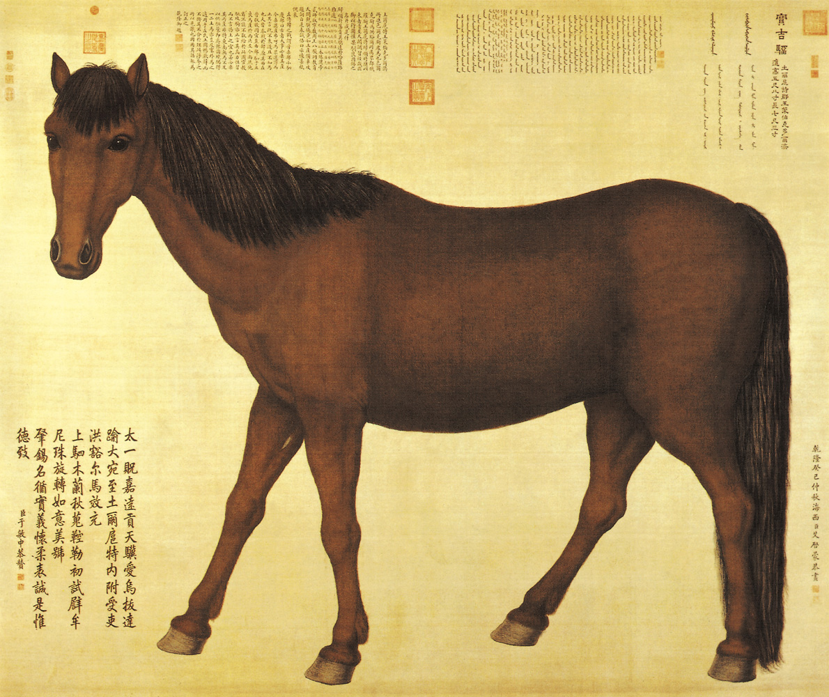 Jgnatius Sickeltart's Baojiliutu